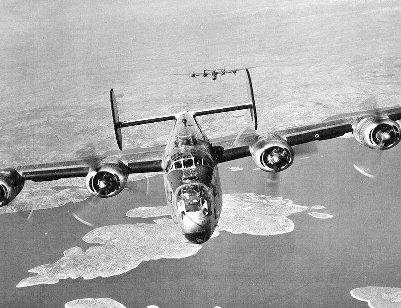 461st Bombardment Group B-24 Liberators returning from attacking Muhldorf Marshalling Yard Germany, 11 March 1945. In the background, the island of Drvenik Veli, Croatia can be seen.